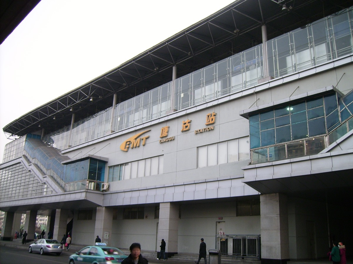 Tanggu Station of Tianjin Metro Line 9, aka Binhai Mass Transit (Tianjin-Binhaixinqu Light Rail)